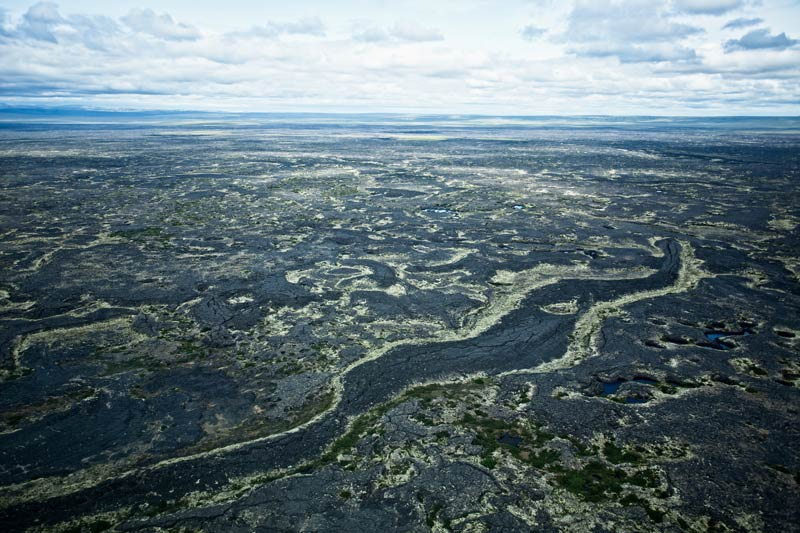 Aerial view of the Lost Jim Lava Field, Bering Land Bridge National Preserve, Alaska, USA